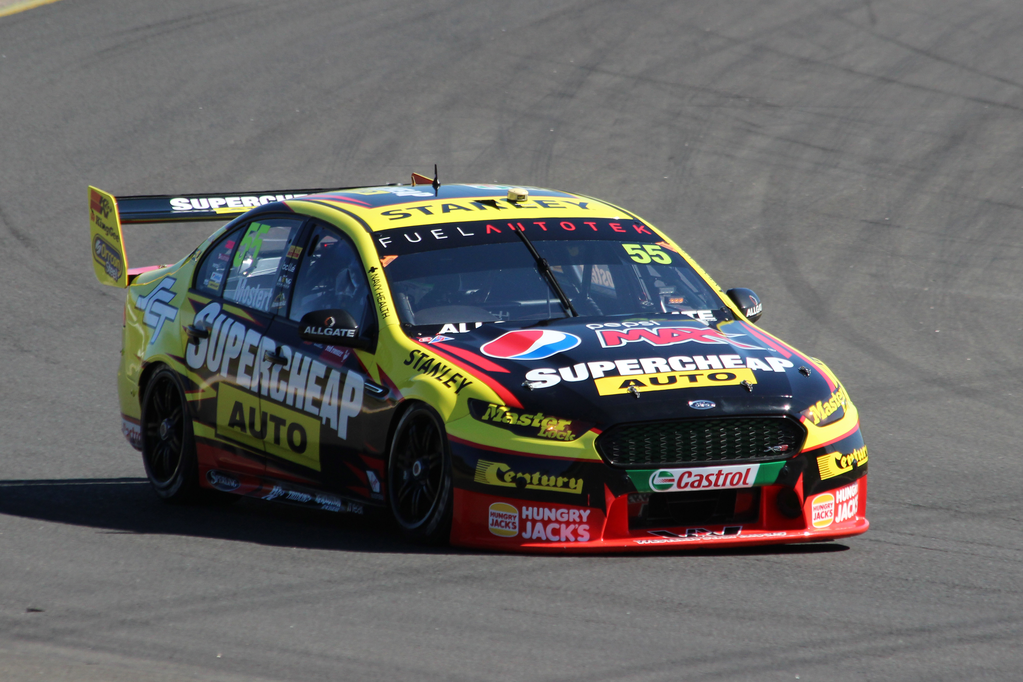 Chaz Mostert (Rod Nash Racing Ford FG X Falcon) during Practice 3 at the 2016 Red Rooster Sydney SuperSprint.